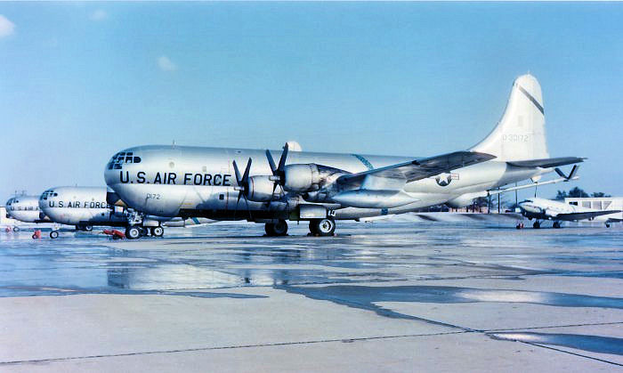 Boeing KC-97G Stratofreighter 53-0172 100th Air Refueling Squadron about 1964